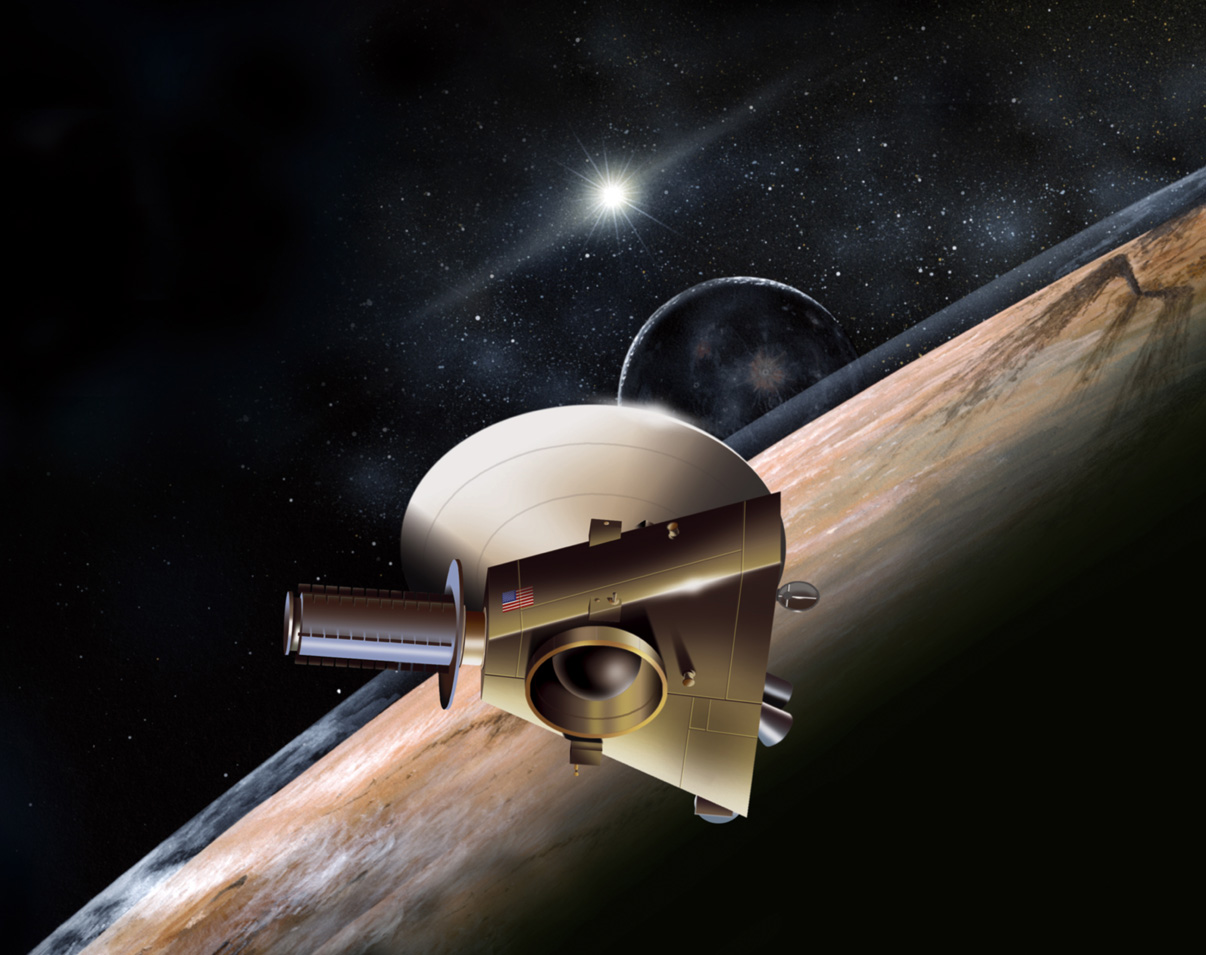 Artist's impression of New Horizons spacecraft fly-by of Pluto